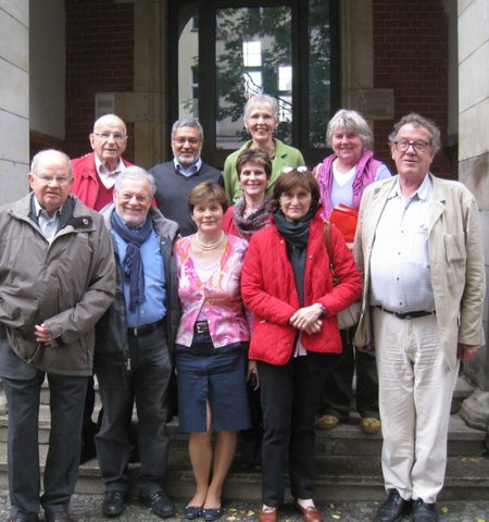 PCCA-group, i. e. supervisors in the non-profit-organization Partners in Confronting Collecive Atrocities (PCCA) An international group of psychoanalysts who want to contribute to solutions of conflicts between national groups Front: Hermann Beland/Germany, Shmuel Erlich/Israel, Dorothee C. von Tippelskirch-Eissing/Germany, Louisa Diana Brunner/Italy, Anton Obholzer/England Middle: Mira Erlich-Ginor/Israel Back: Jona Rosenfeld/Israel, Fakhry Davids/England, Veronika Grüneisen/Germany, Karin Lüders/Germany (from left to righ)